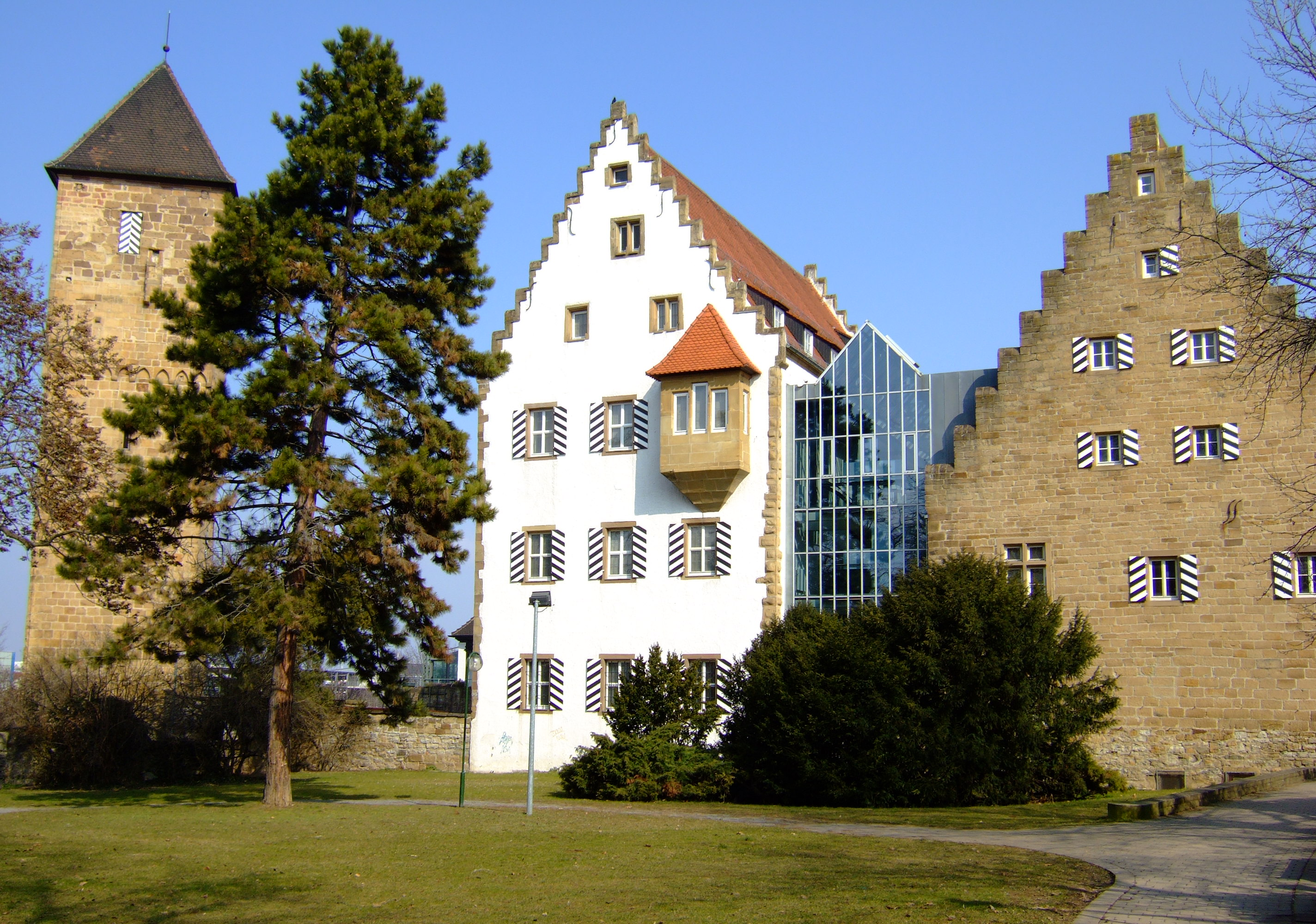 Castle Of the City Neckarsulm, called "Deutschordens-Schloss"